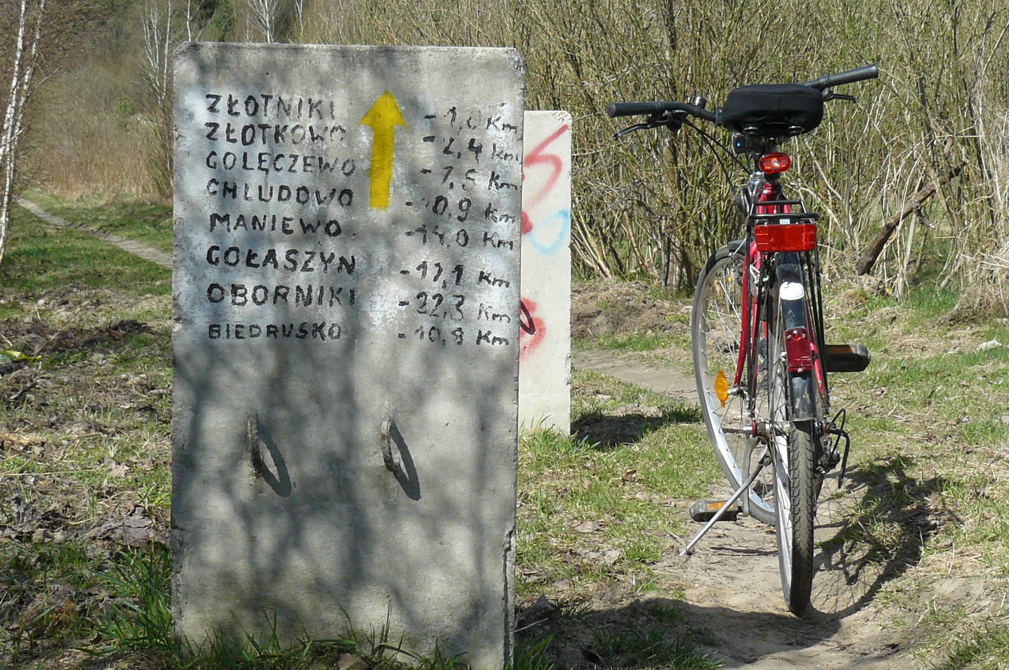 Suchy Las, Cycling Route.